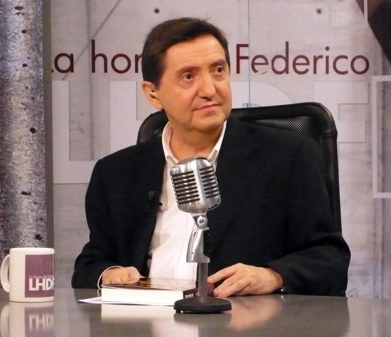 Federico Jiménez Losantos, spanish journalist in Libertad Digital Televisión